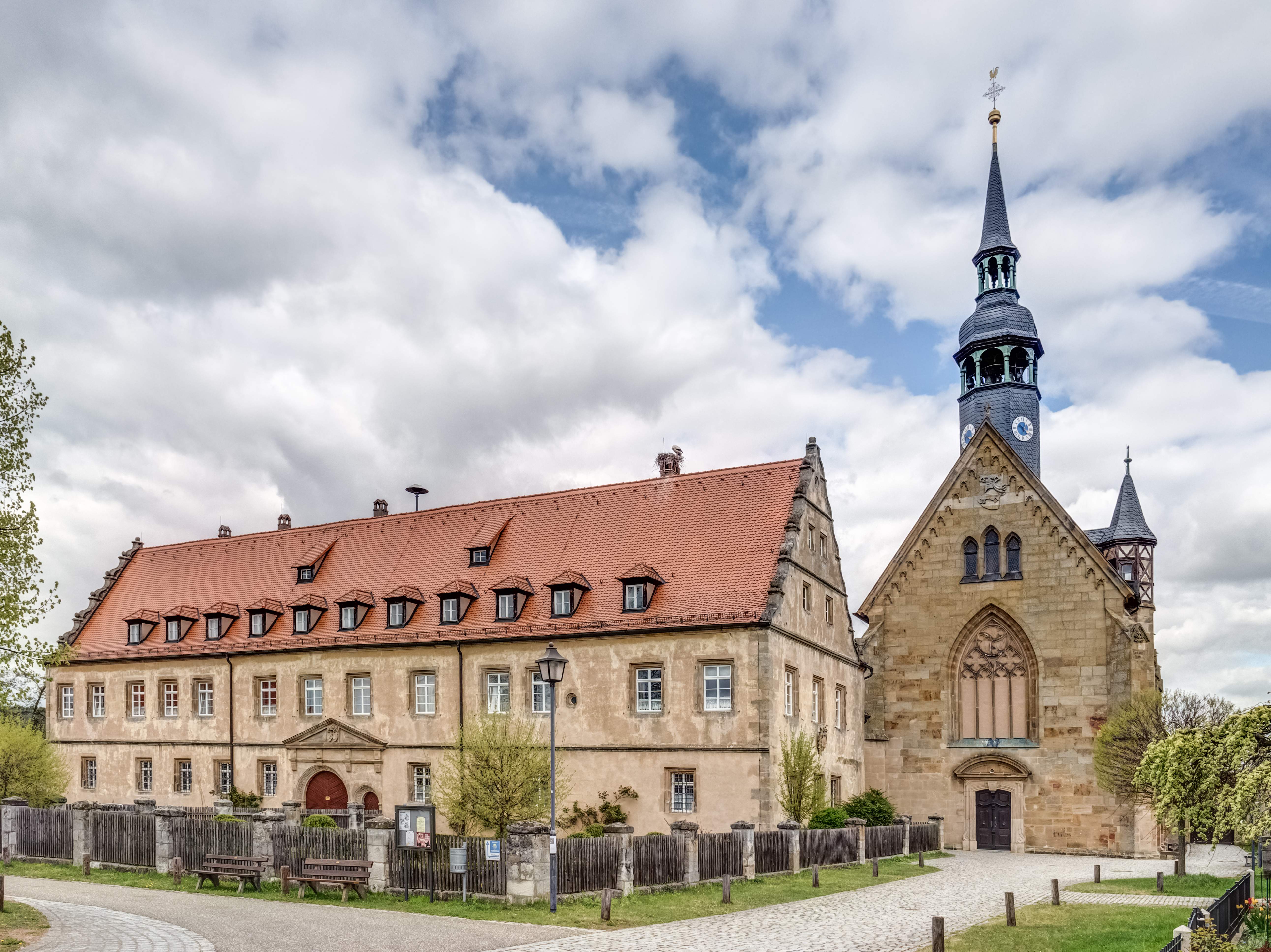 Schlüsselau monastery